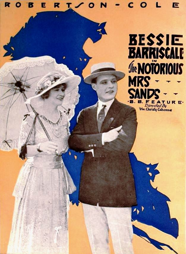 Advertisement for the American drama film The Notorious Mrs. Sands (1920) with Bessie Barriscale and Forrest Stanley, on page 3594 of the April 24, 1920 Motion Picture News.